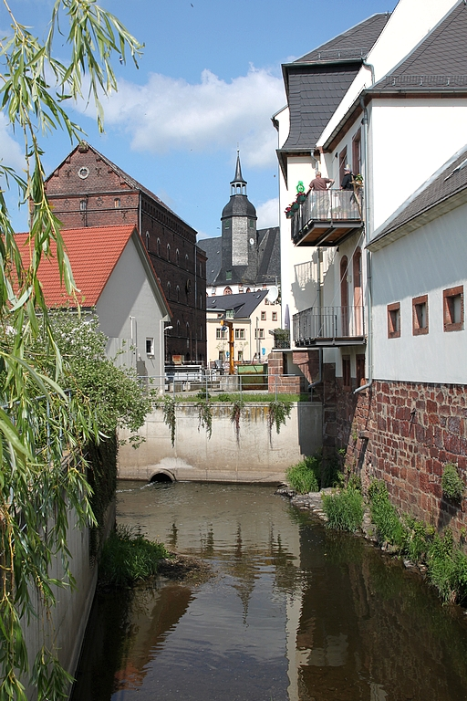 Rochlitz, "Schlossmühle", old watermill on the Mulde river.